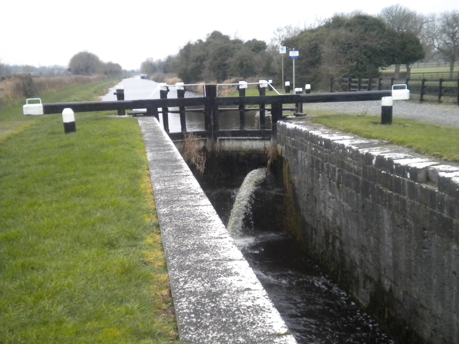 Ferns' Lock - about 3 Km west of Kilcock, Co. Kildare. A really fine example of a lock system on the Royal Canal. "Fern's lock" (local reference to the area) consists of the Canal lock station (pair of locks), left hand turn road bridge (to Summerhill) over the Royal canal and partially restored remains of the lock keeper's house. A bitterly cold February day makes the photographs look a little gloomy. Will return in summer to update this collectio, There is an automated railway level crossing adjacent to the Lock. The Lock (Number 17) marks the begining of "The Long Level" - the 32 kilometer stretch until the next lock gate at Thomastown, Killucan, Co. Westmeath. Walkers wishing to access Kilcock (from Enfield direction) must use the left bank. Walkers wishing to access Enfield from Kilcock must also use the left bank (switching sides further down at Cloncurry). Whils't the Canal Bank from Ferns' Lock to Kilcock is in good condition the bank to Enfield is more rugged. The bank cutting is very narrow in places making it difficult for machinery to maintain the bank grass etc. This is probably OK in summer but makes for wet and murky conditions in Winter. On Geograph File:Fern's Lock on the Royal Canal near Kilcock, Co. Kildare - .uk - 1387796.jpg